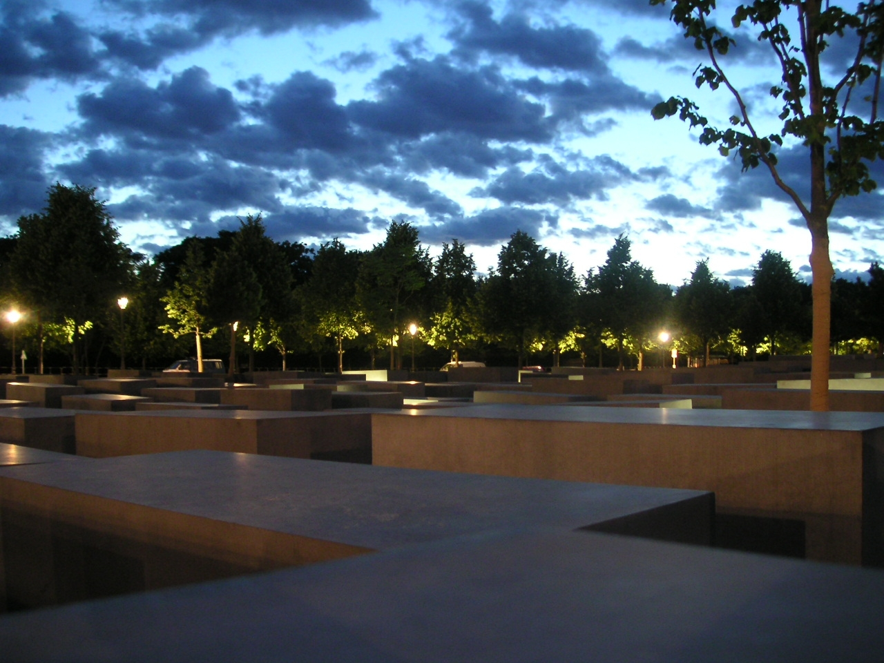 Memorial to the Murdered Jews of Europe (Berlin, Germany)